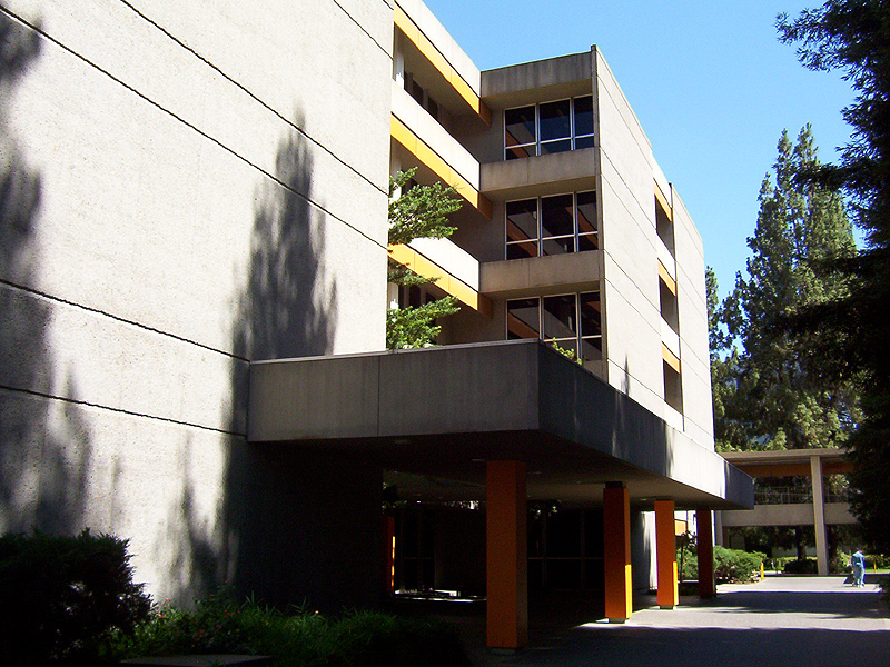 This is a photo of Sequoia Hall located on the campus of California State University, Sacramento